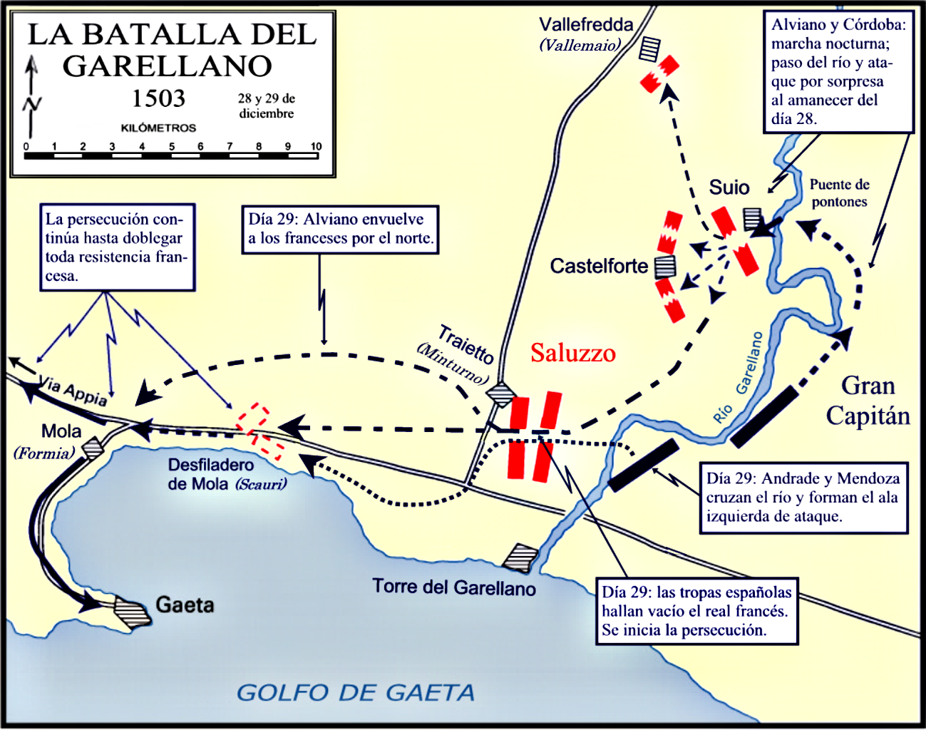 Map of the Battle of Garigliano (December 28-29th, 1503).